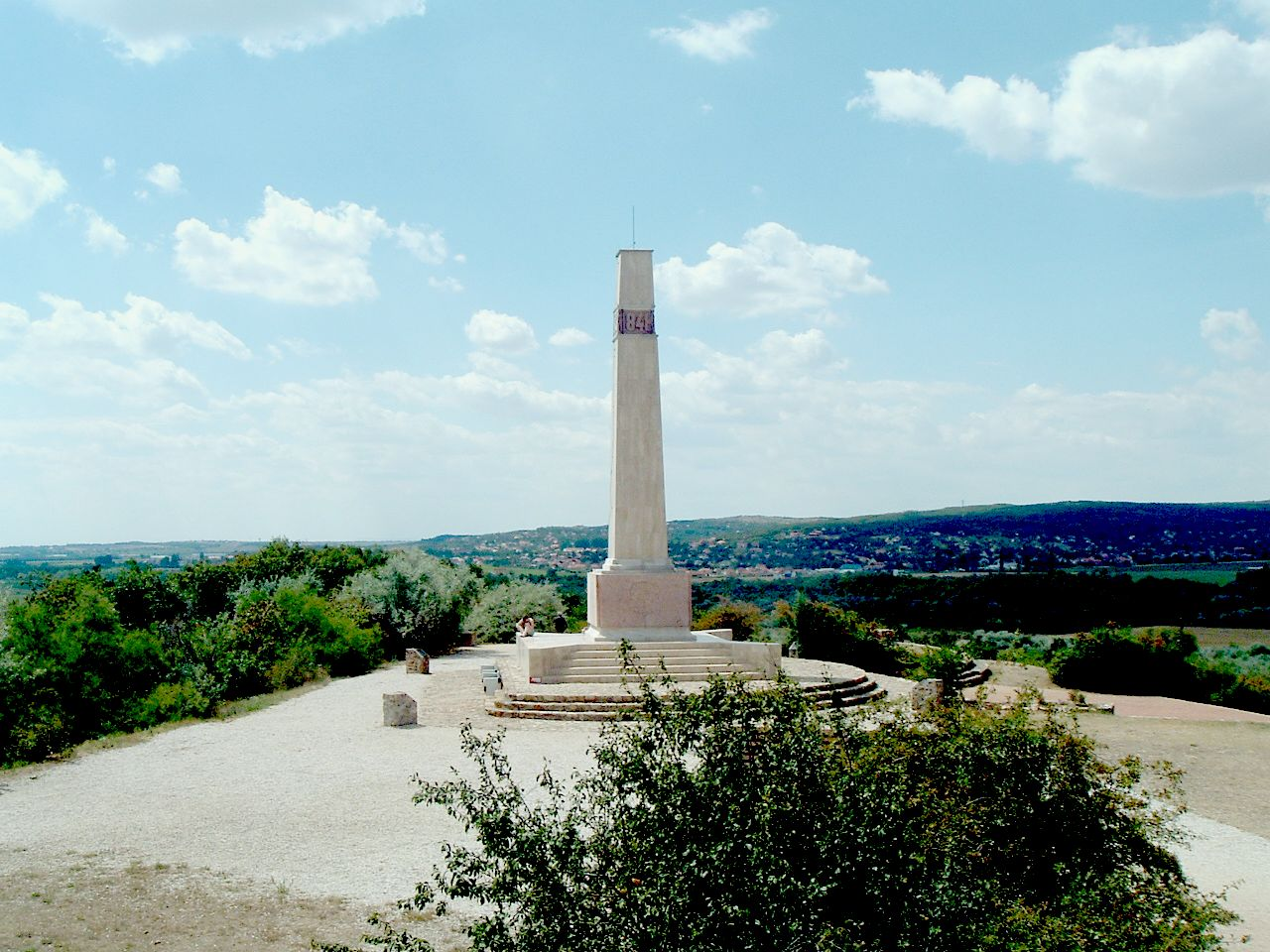 The Monument of the Battle Pákozd in 1848